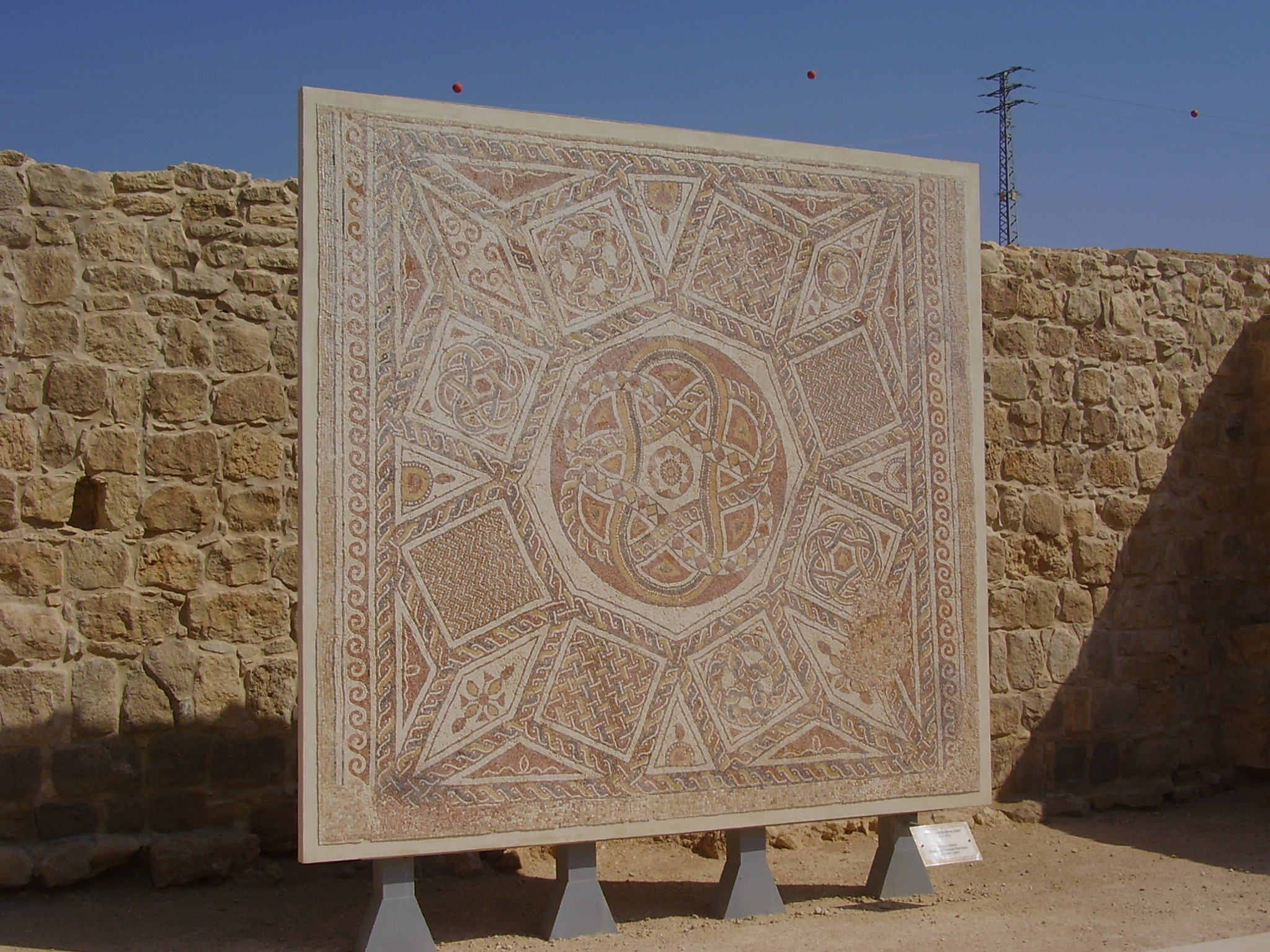 Deir Qalah monastery mosaic